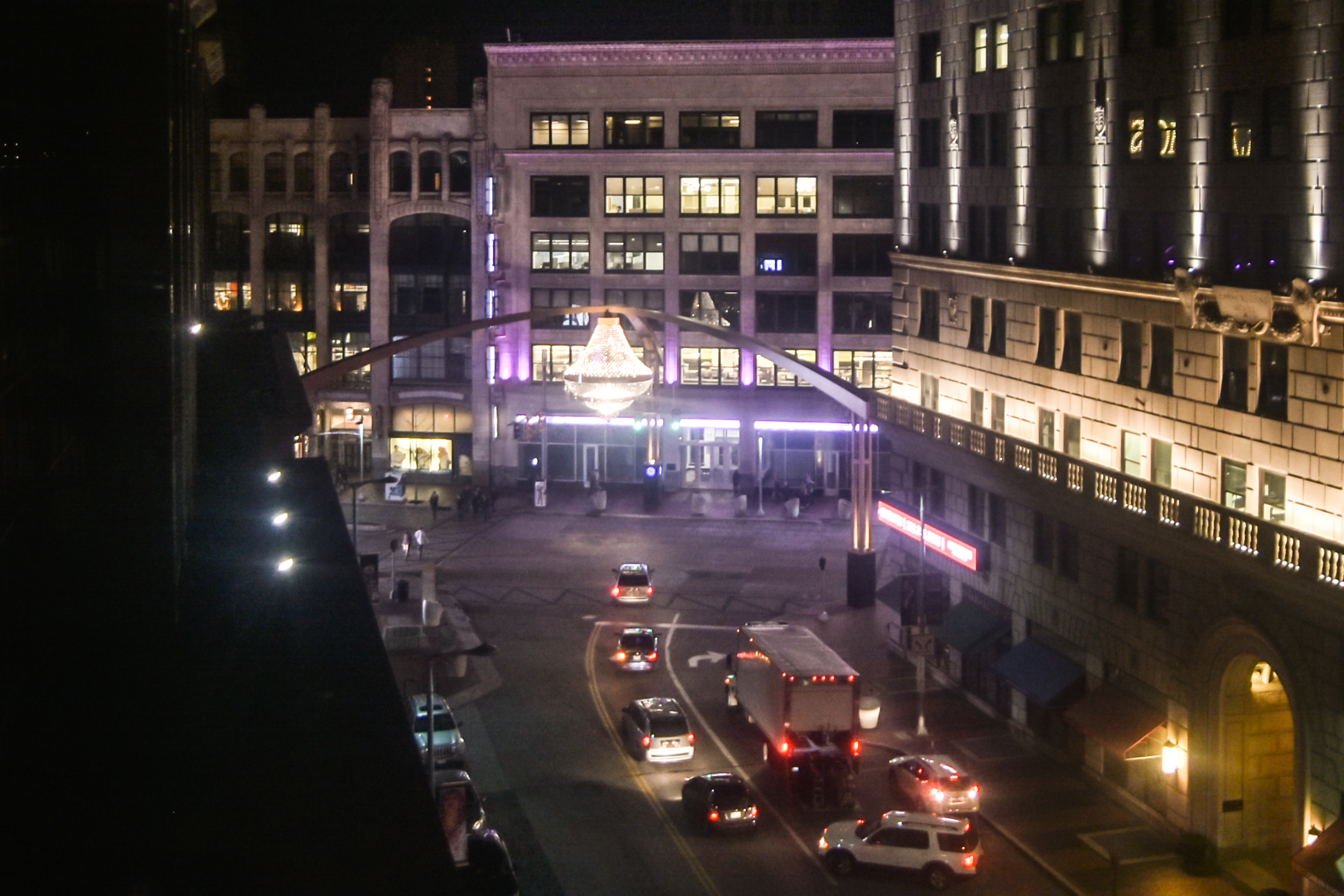 Playhouse Square